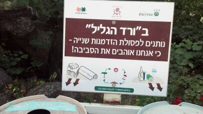 Recycling in Vered Hagalil, Israel